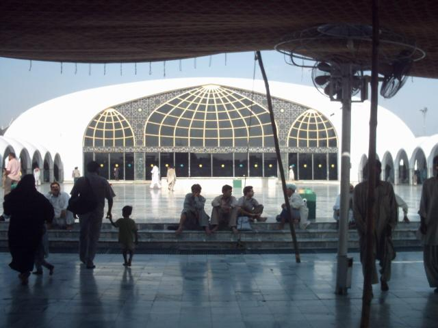 A view of Jamia Hajveria from inside the tomb Picture taken by Pale blue dot on June 12, 2004.